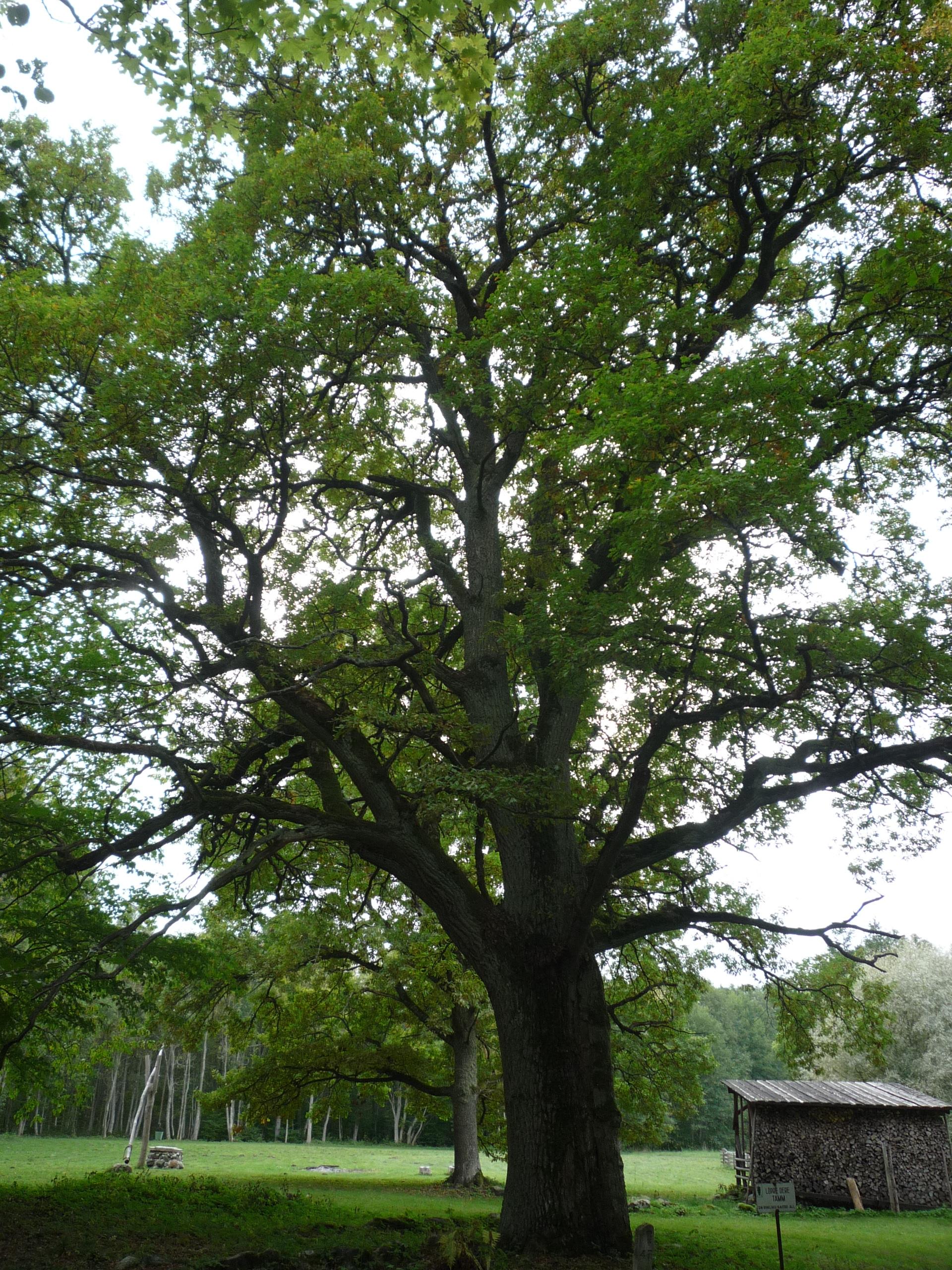 Lõpre oak. Matsalu national park. Puise village, Ridala parish, Lääne county, Estonia.